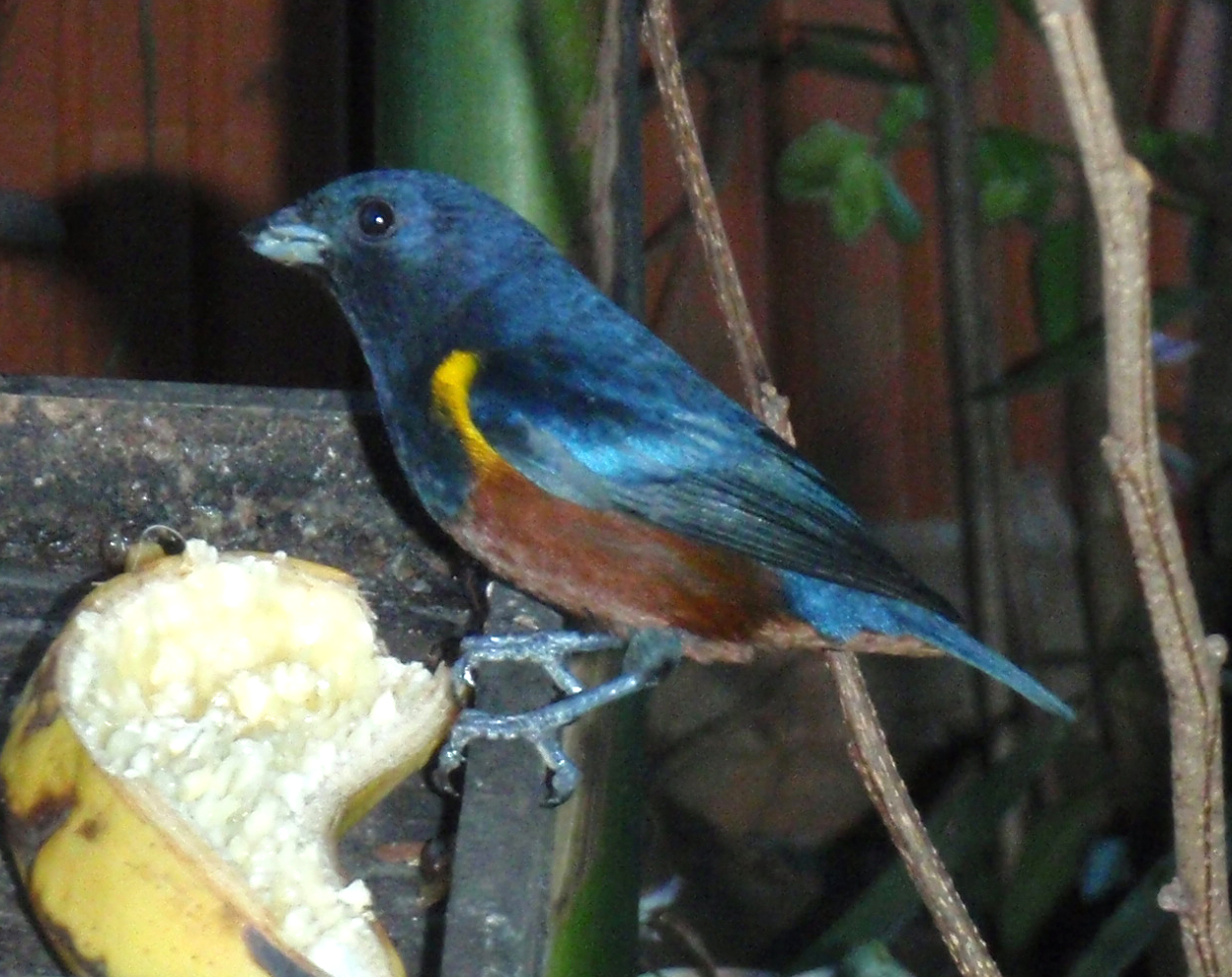 Chestnut-bellied Euphonia in Puerto Iguazu, Argentina